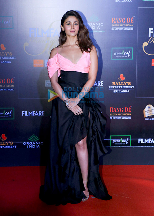 Alia Bhatt at Filmfare Glamour And Style Awards 2019